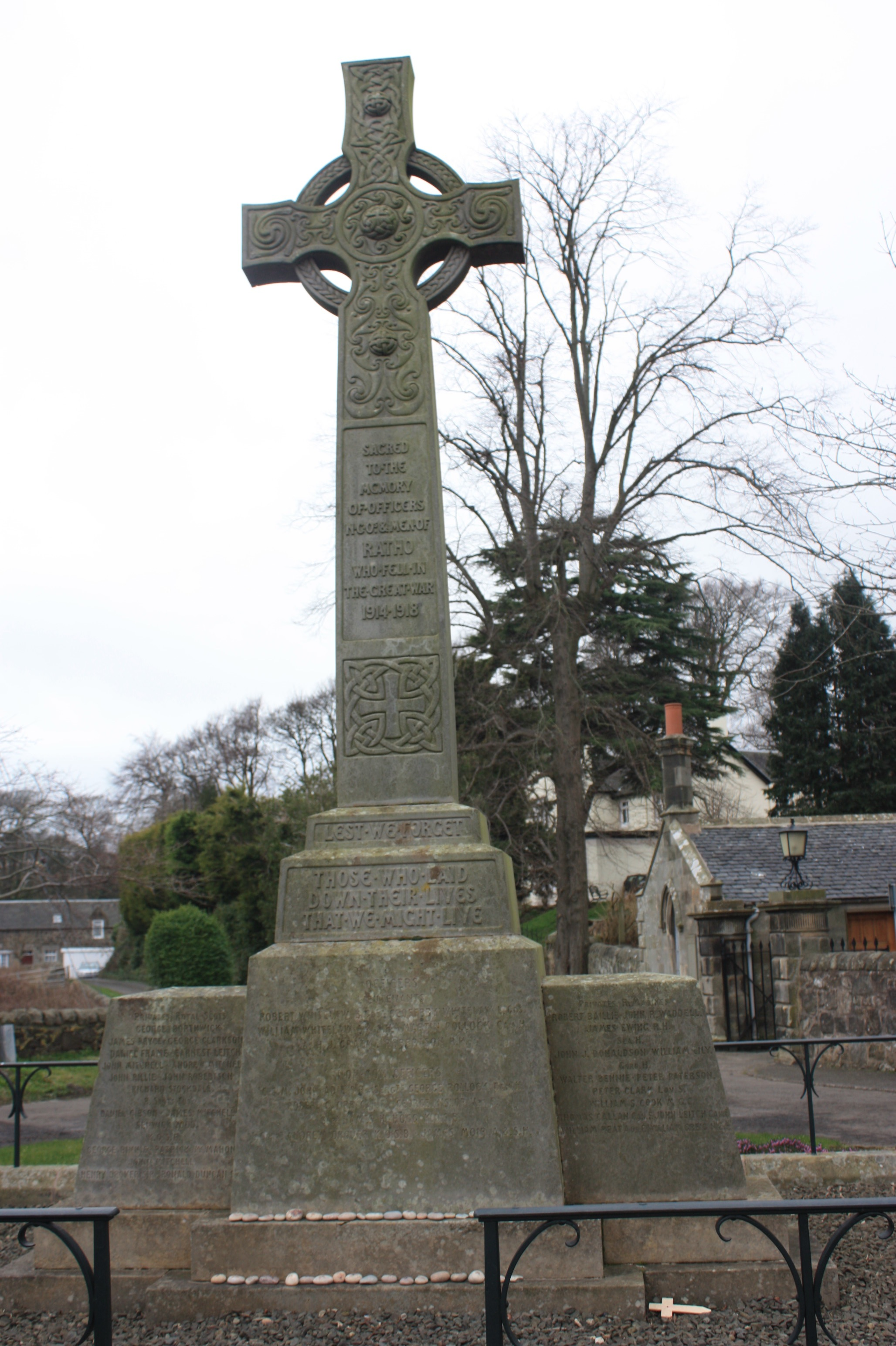 Ratho war memorial